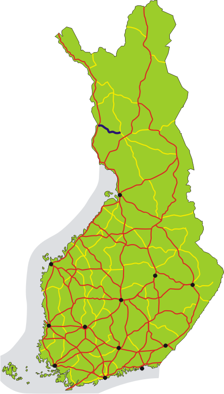 Map of main road 83 in Finland, shown in dark blue. Roads number 1-29 are red, 40-98 yellow. Black dots show the 12 biggest urban areas.